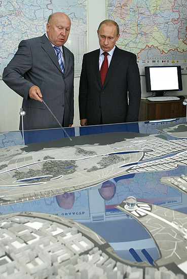 Russian Prime Minister Vladimir Putin held a meeting with Governor of the Nizhny Novgorod Region Vladimir Shantsev